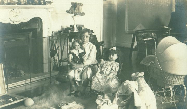 Isabel Alfonsa with her dolls